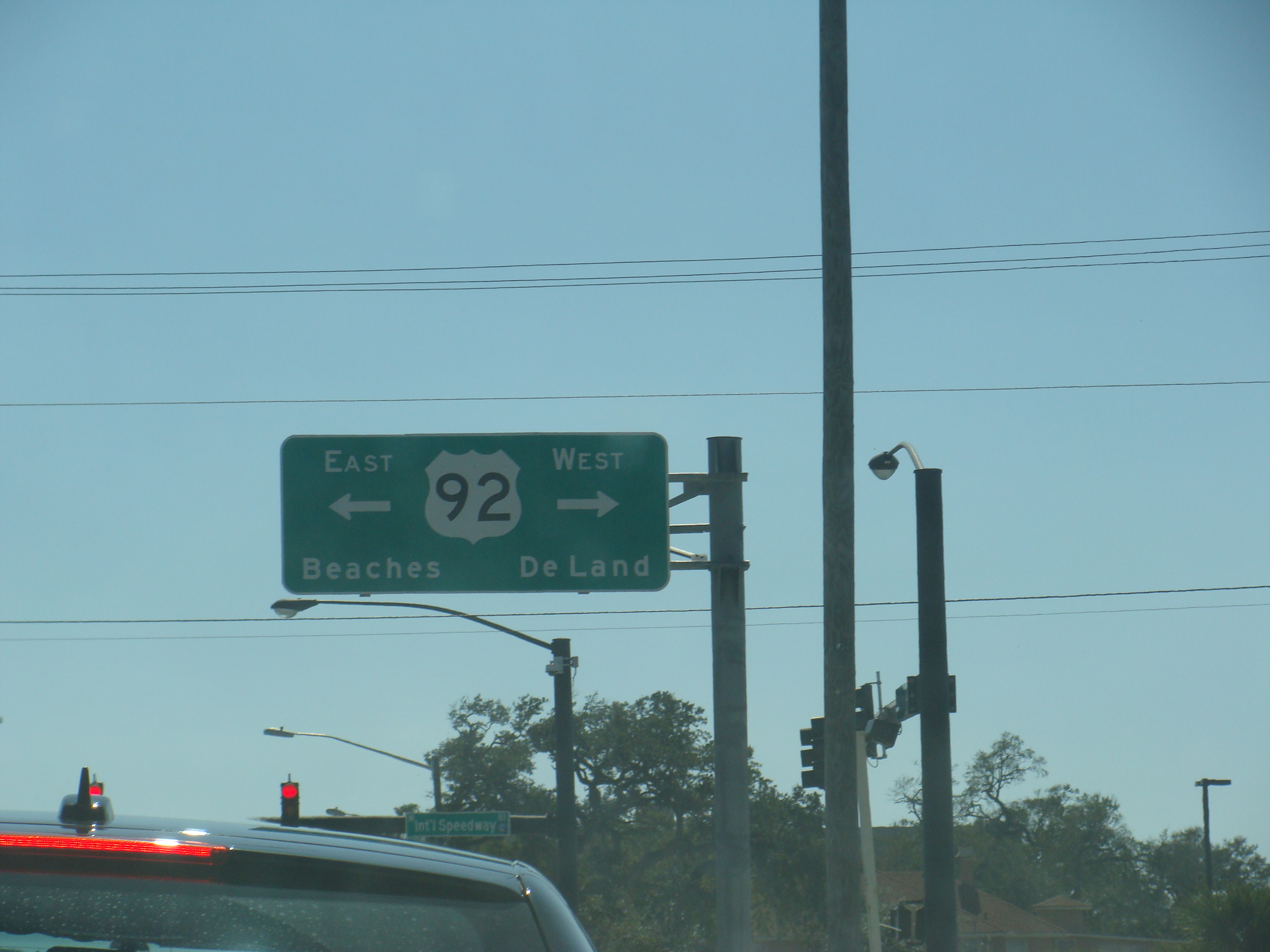 A sign for US Route 92 (aka International Speedway Blvd) on US Route 1 (aka Ridgewood Ave) in Daytona Beach